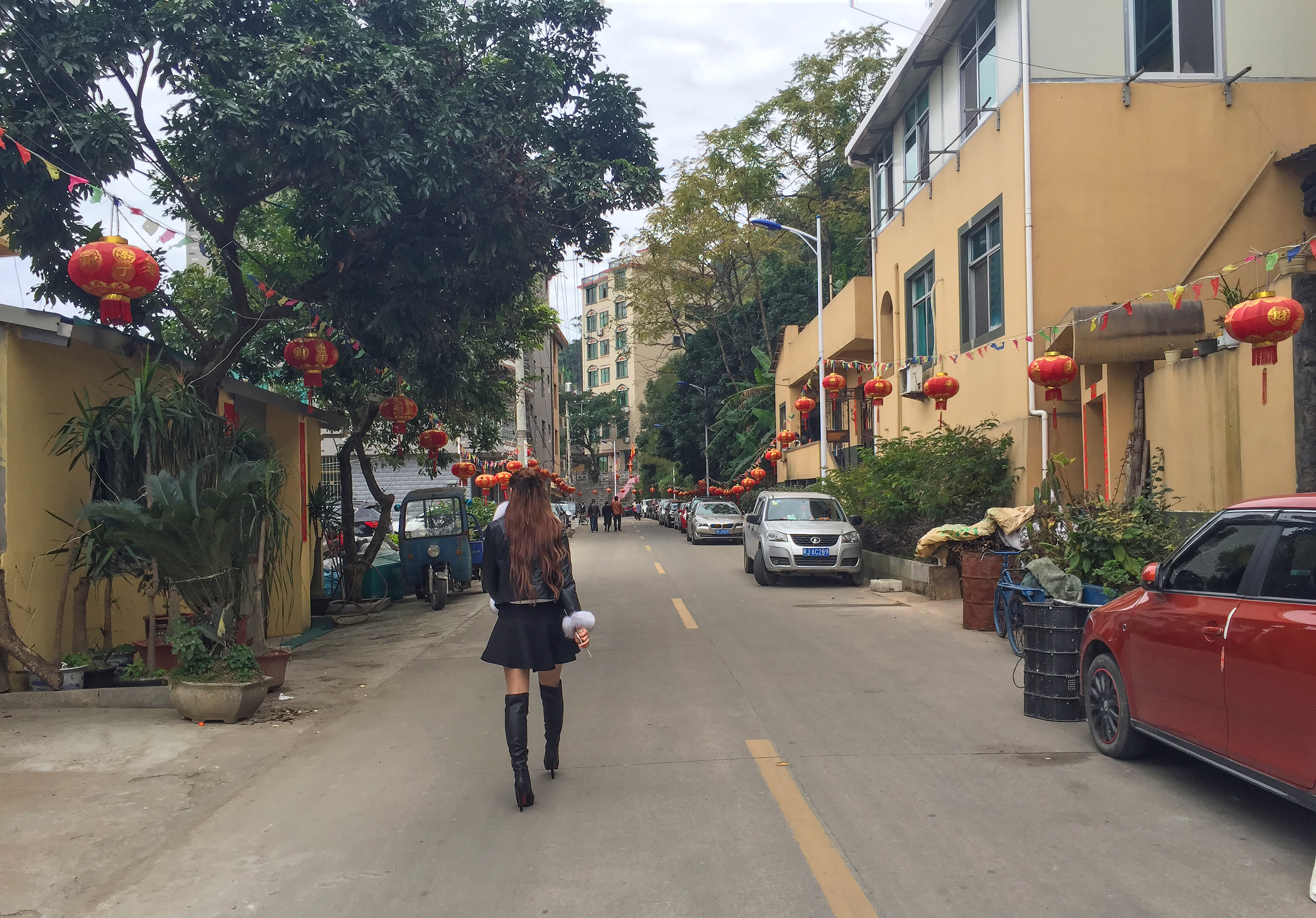 This is the only major road in Jiaotou, which links to the pier.